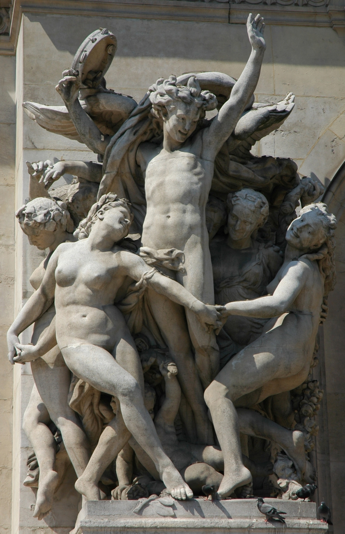 La danse (“The Dance”) by Jean-Baptiste Carpeaux, created for the façade of the Palais Garnier, Paris. This a copy by Paul Belmondo made in 1963; the original is displayed in the Musée d'Orsay, Paris.